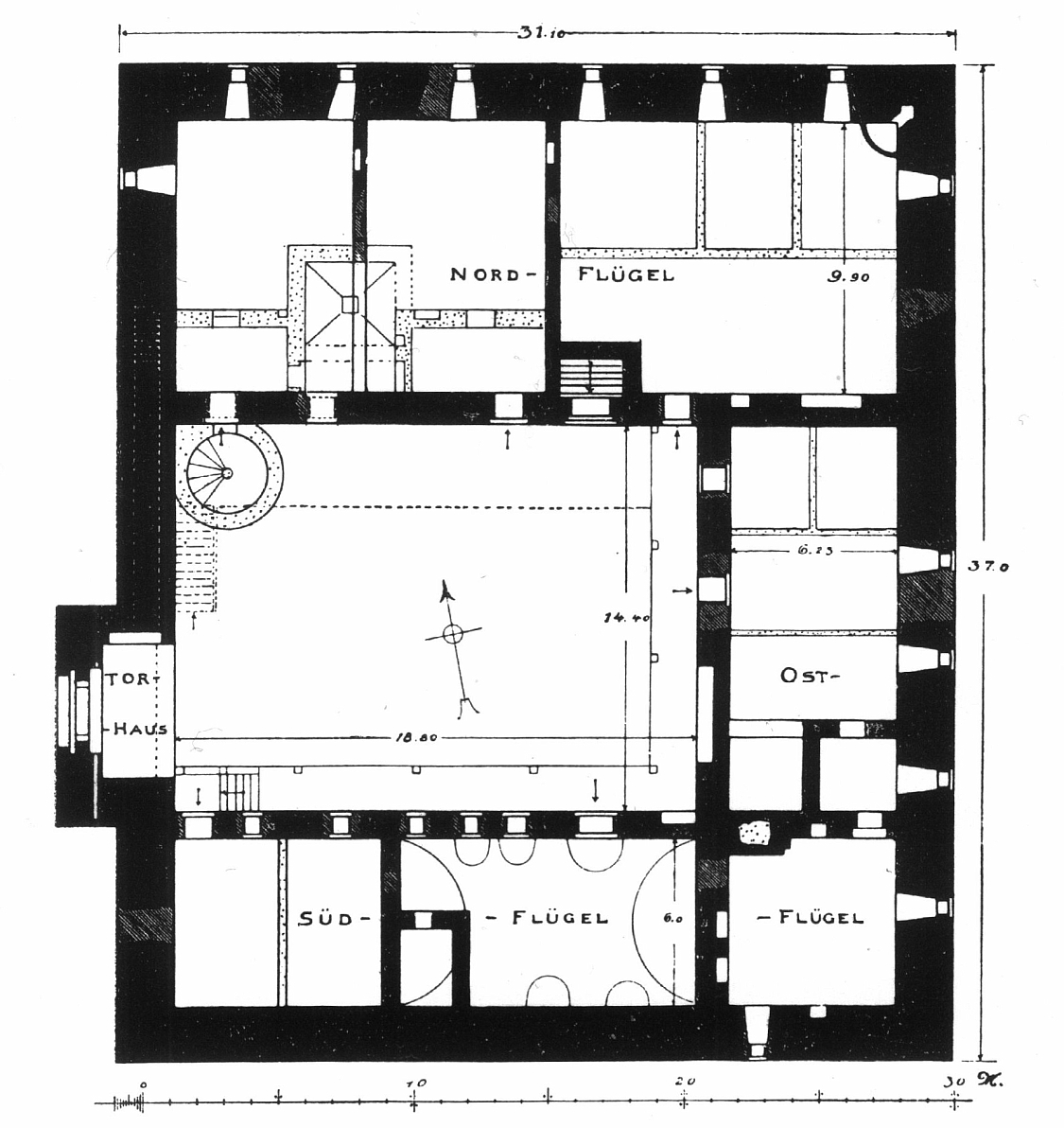 Kętrzyn Castle